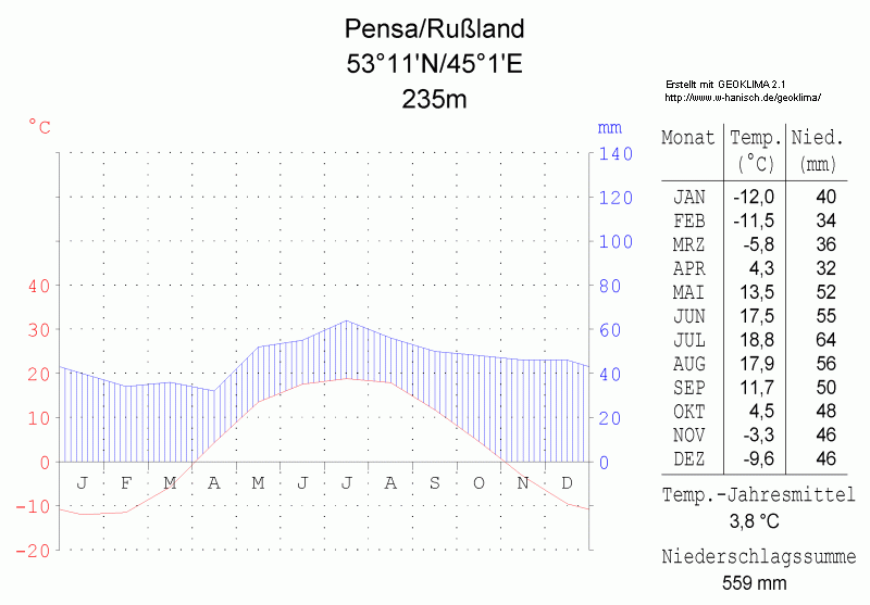 climate chart in the format by Walther and Lieth, metric, °Celsisus and millimeters, made with Geoklima 2.1